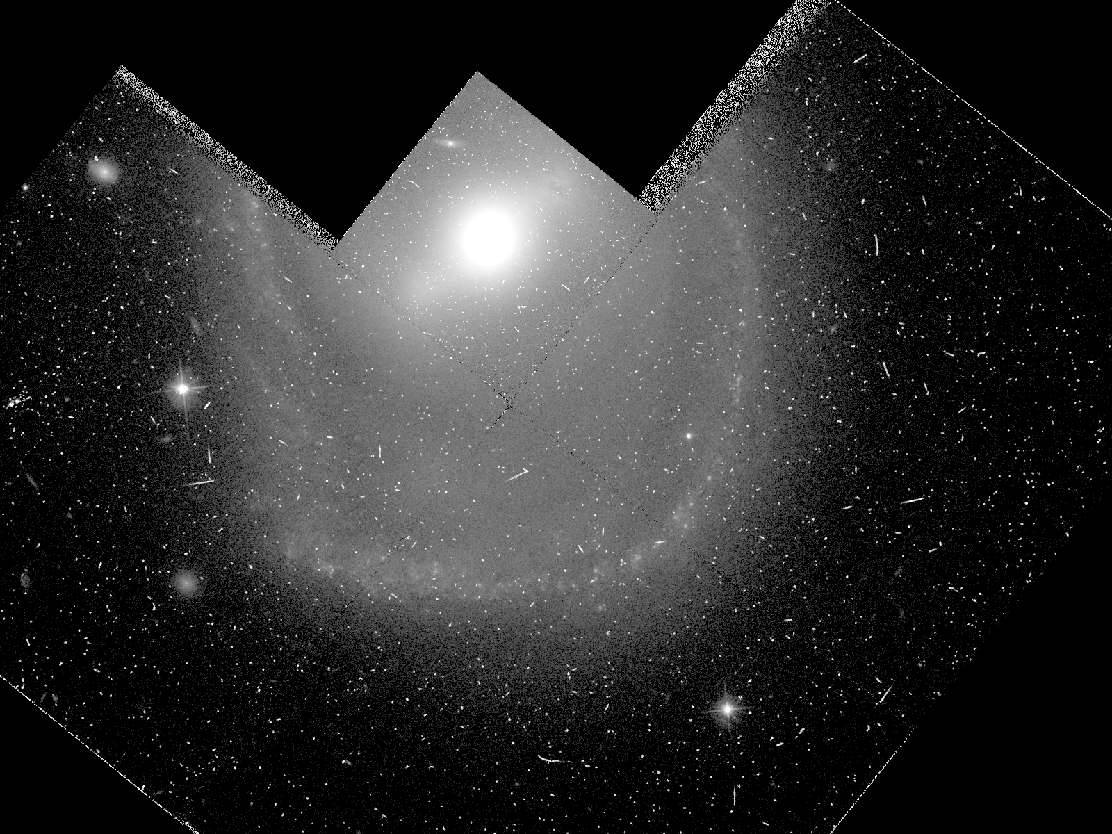 Color rendering is done by by Aladin-software (2000A&AS..143...33B.)